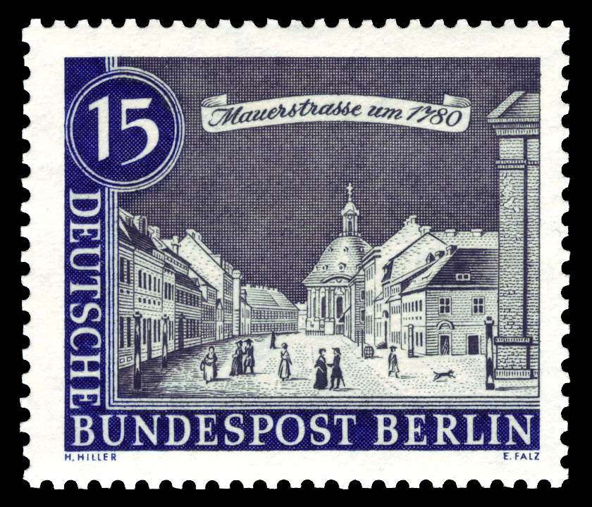 Stamp series Historical Berlin